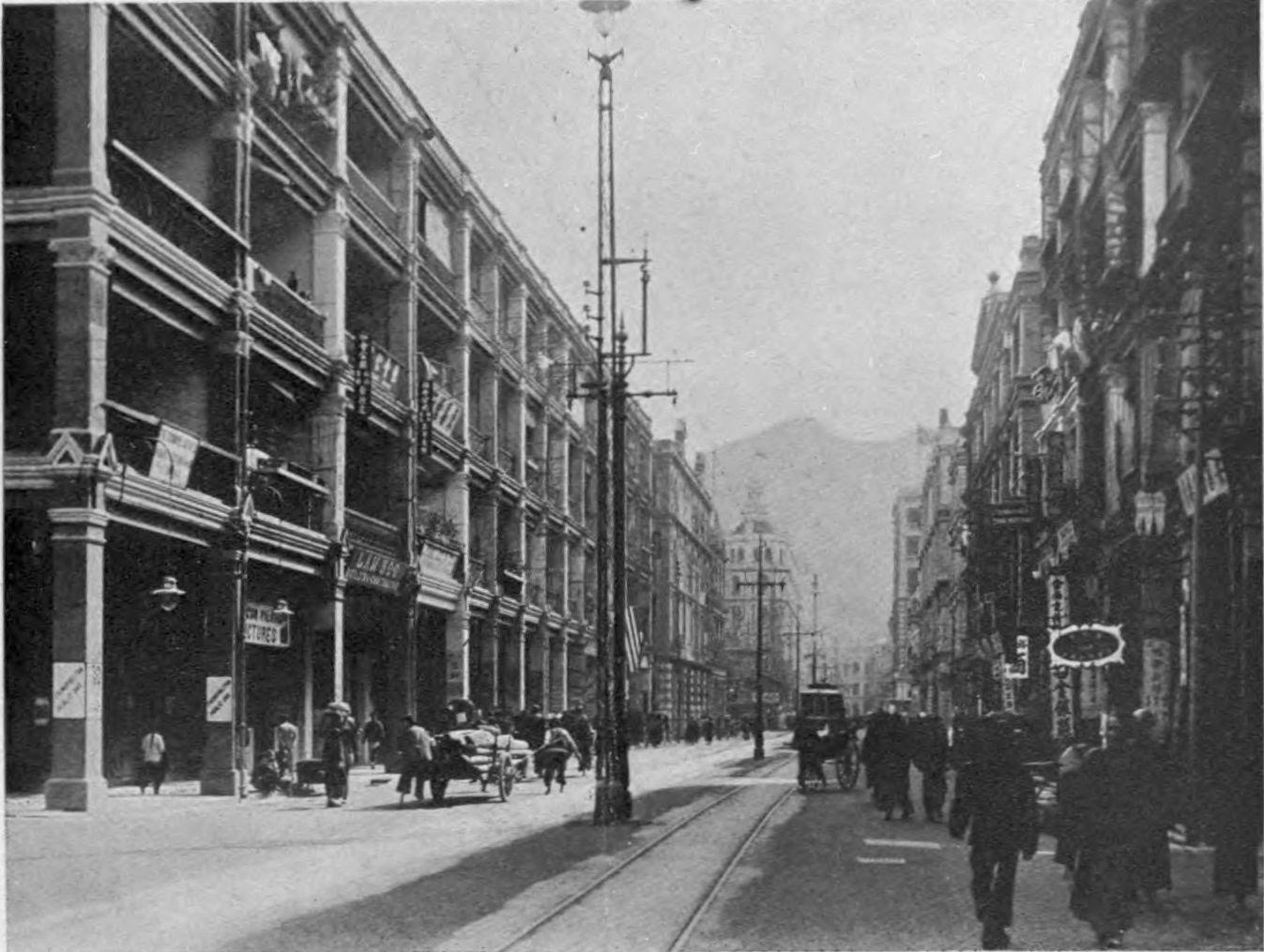 Des Voeux Road - Hong Kong